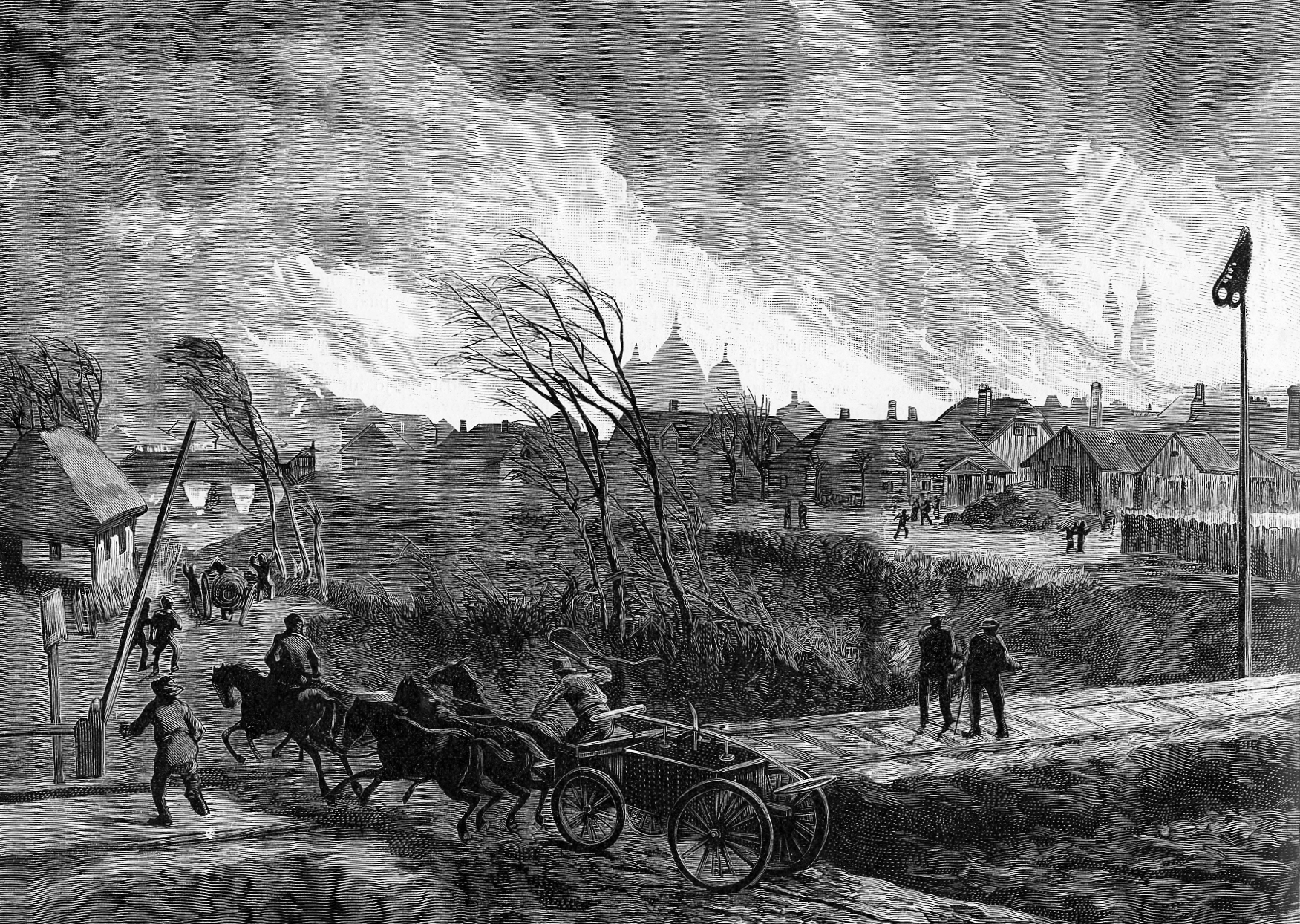 Fire of the town of Stryj in Austrian Galicia, 1886